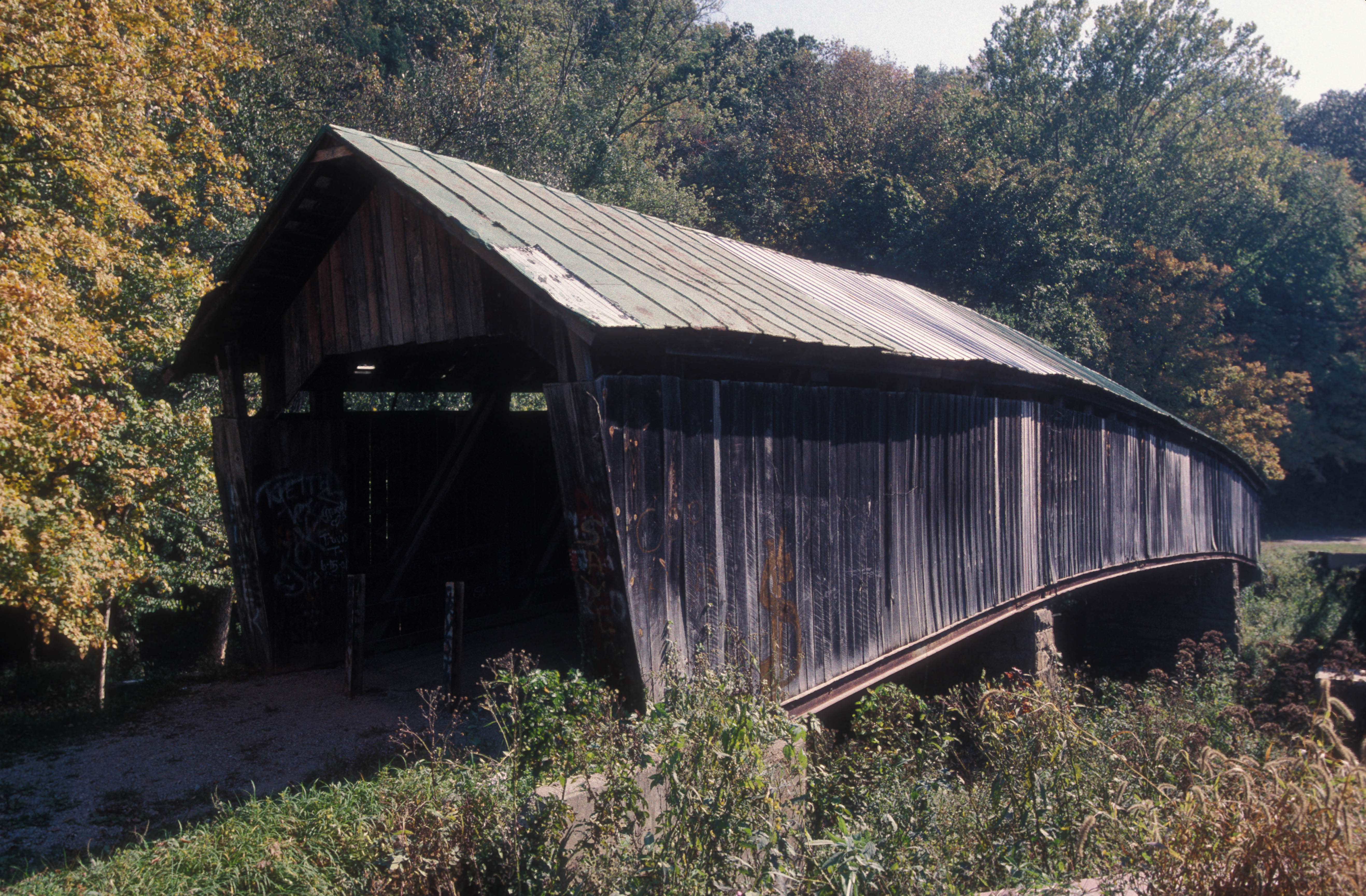 3 SPAN 165', 1874 DOUBLE MKING AND ARCH OVER RACCOON CREEK; ALSO KNOWN AS GEER MILL C.B.